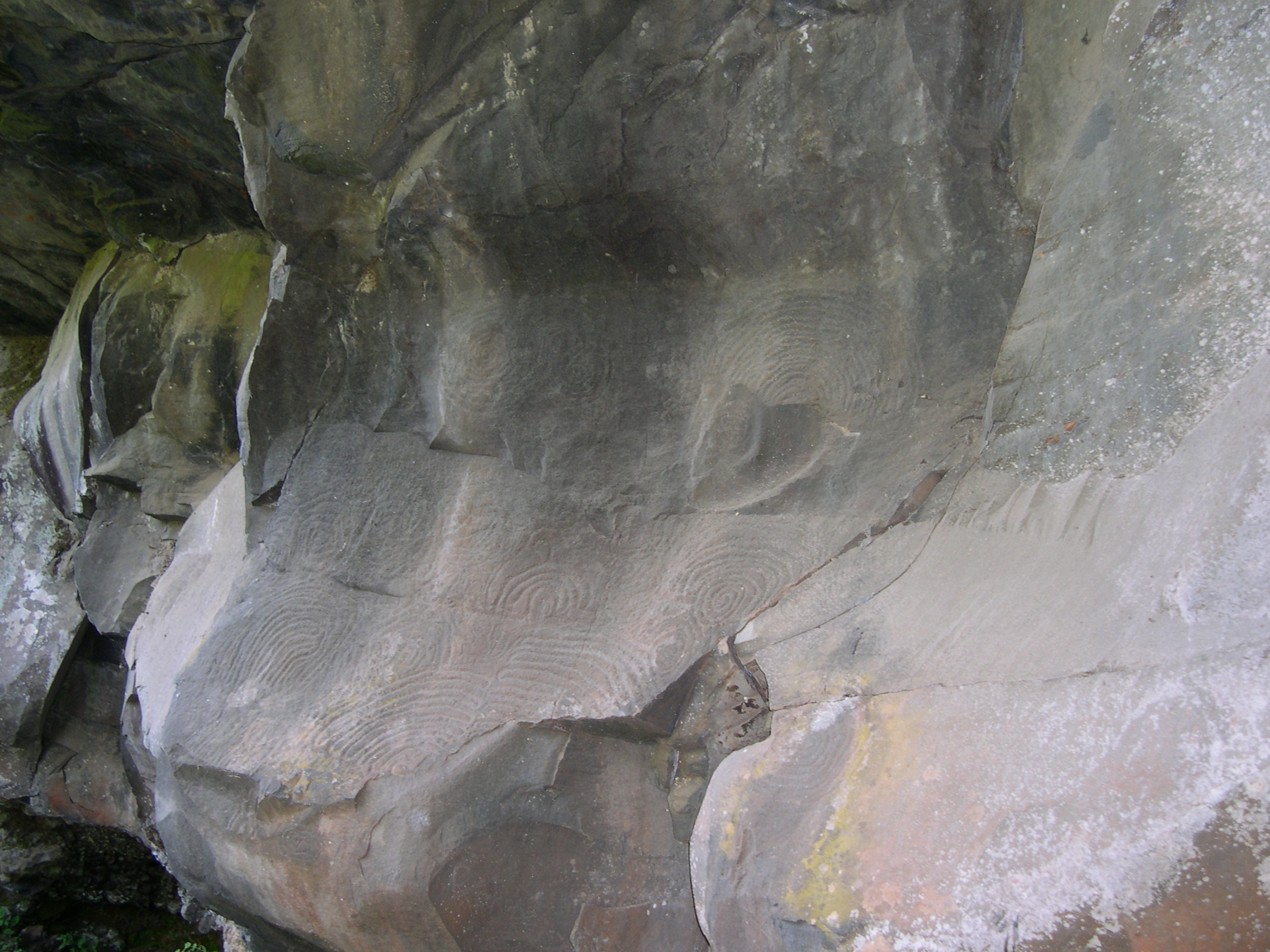 Gravures Guanches / Guanche engravings, Canary Islands